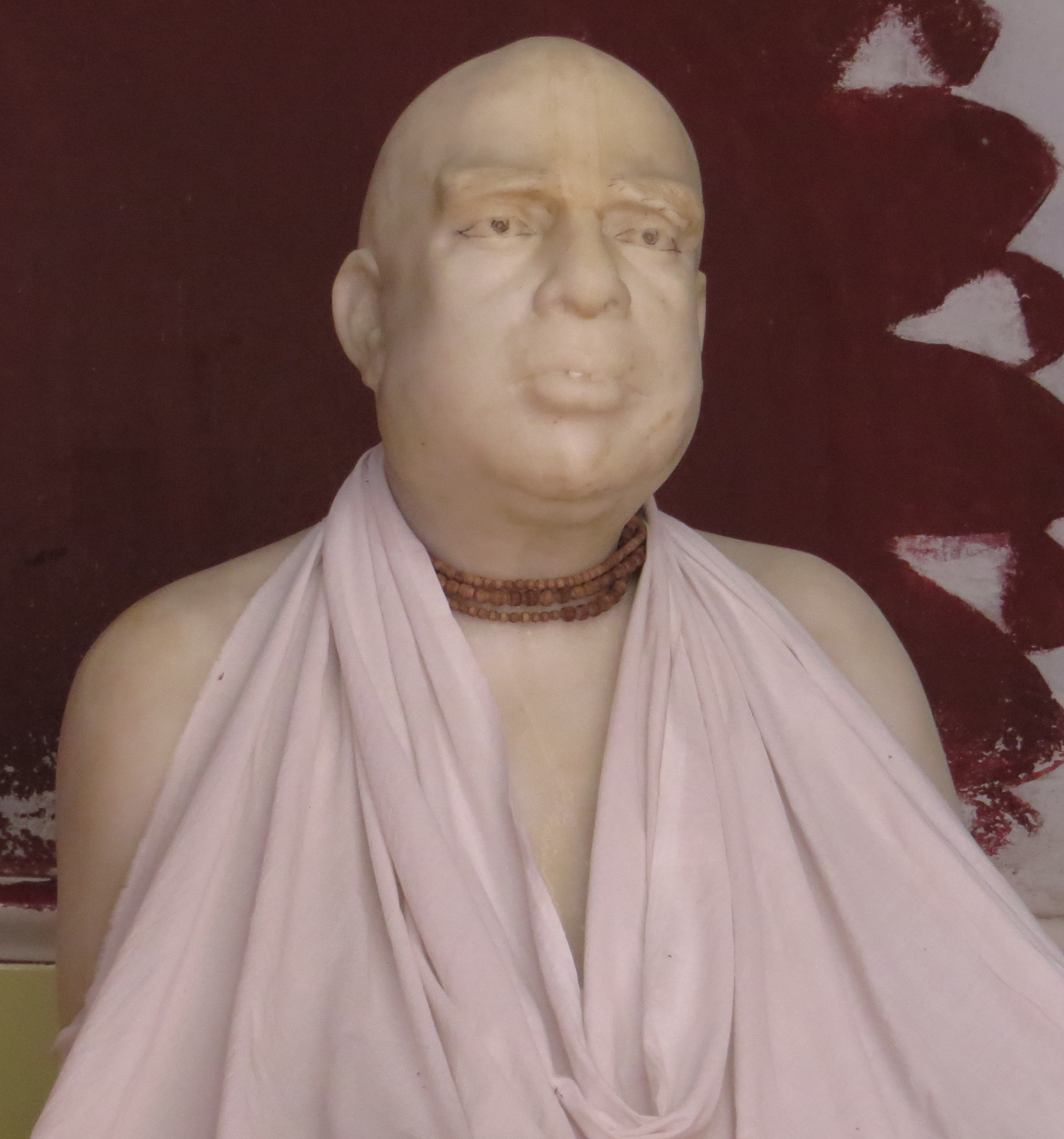 Bhaktivinoda Thakur's murti (statue) at his samadhi (shrine) in Mayapur, West Bengal